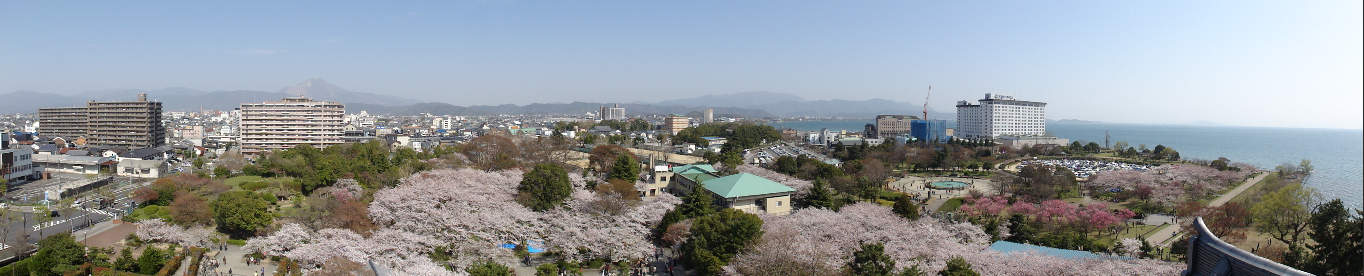 View from Nagahama-jo castle,Shiga Pref., Japan